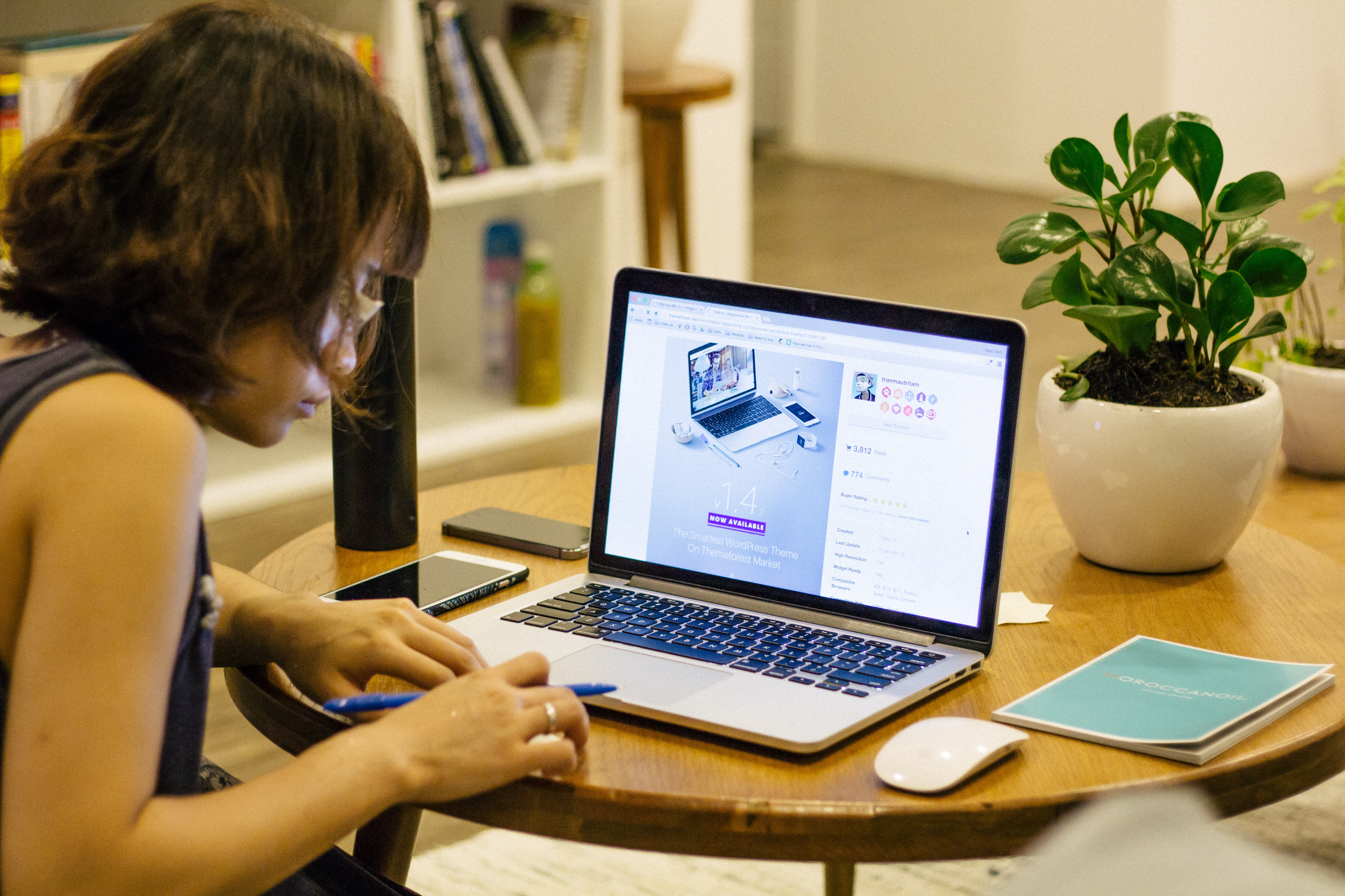 Woman working behind computer.